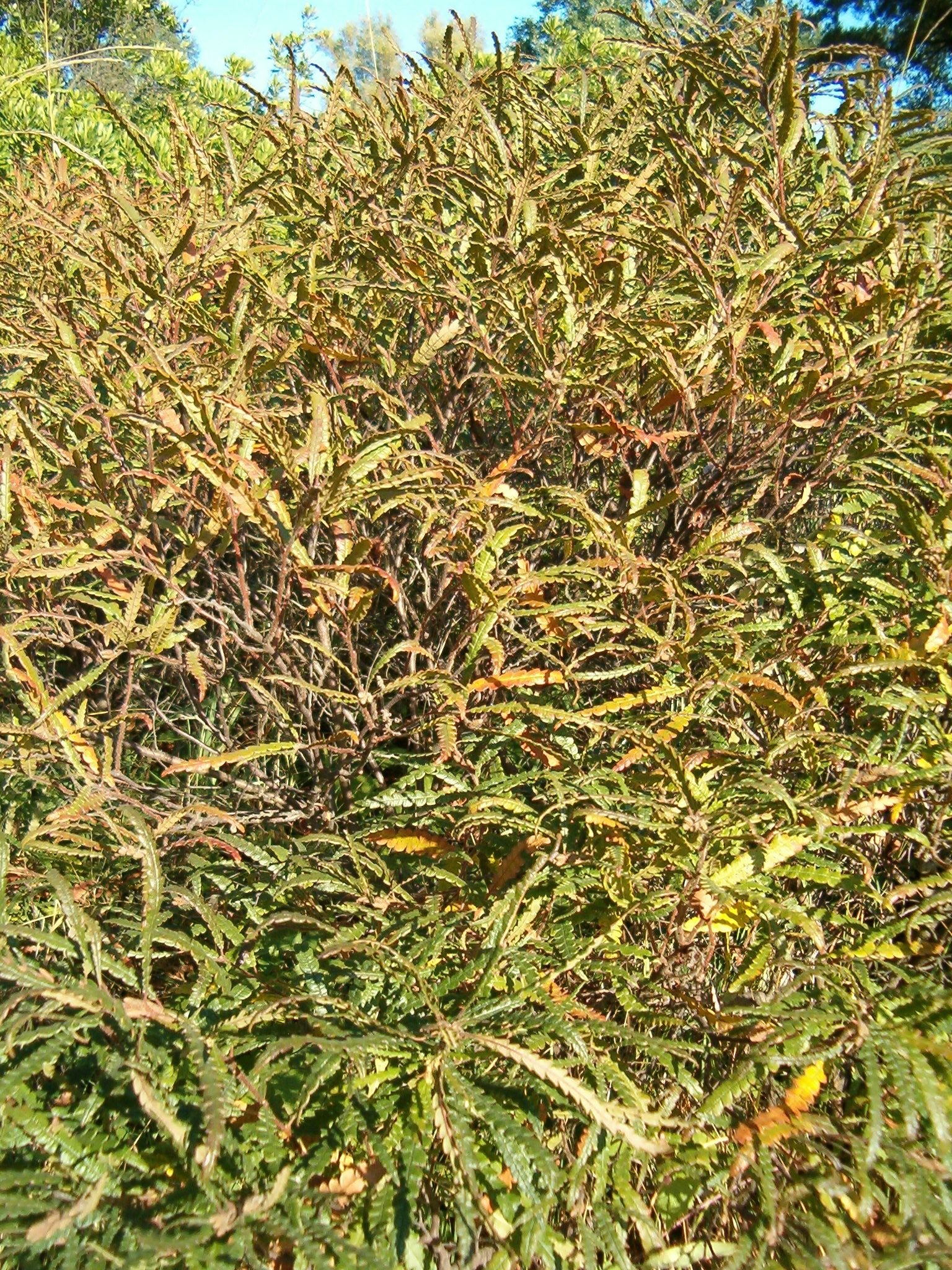 Location: Botanical Gardens Berlin Habitus and Leaves at Fall